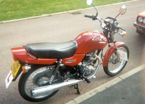 Photo of Honda CG125, BR-T 1997 model